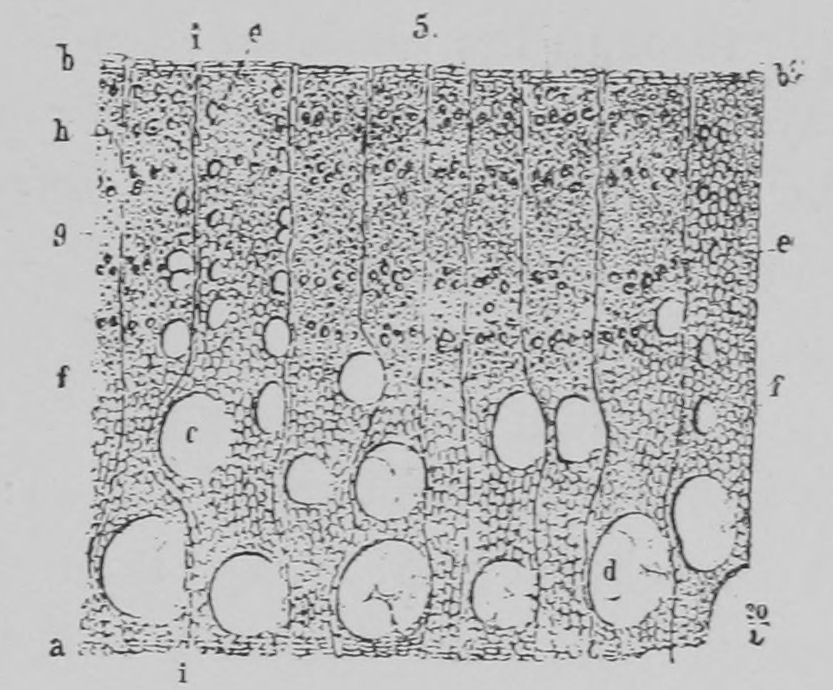 Fig. 29.—A small piece of one annual ring of old oak wood (magnified twenty diameters): a, boundary of the autumn wood of the preceding (older) ring; b, that between the zone shown and the next youngest ring. In the annual ring shown the spring wood begins with large vessels, c and d, some with tyloses, d, in them, and passes gradually into autumn wood, with smaller vessels, e, e, and more tracheids and fibers, g. Only small medullary rays, i, are shown. (Hartig.)